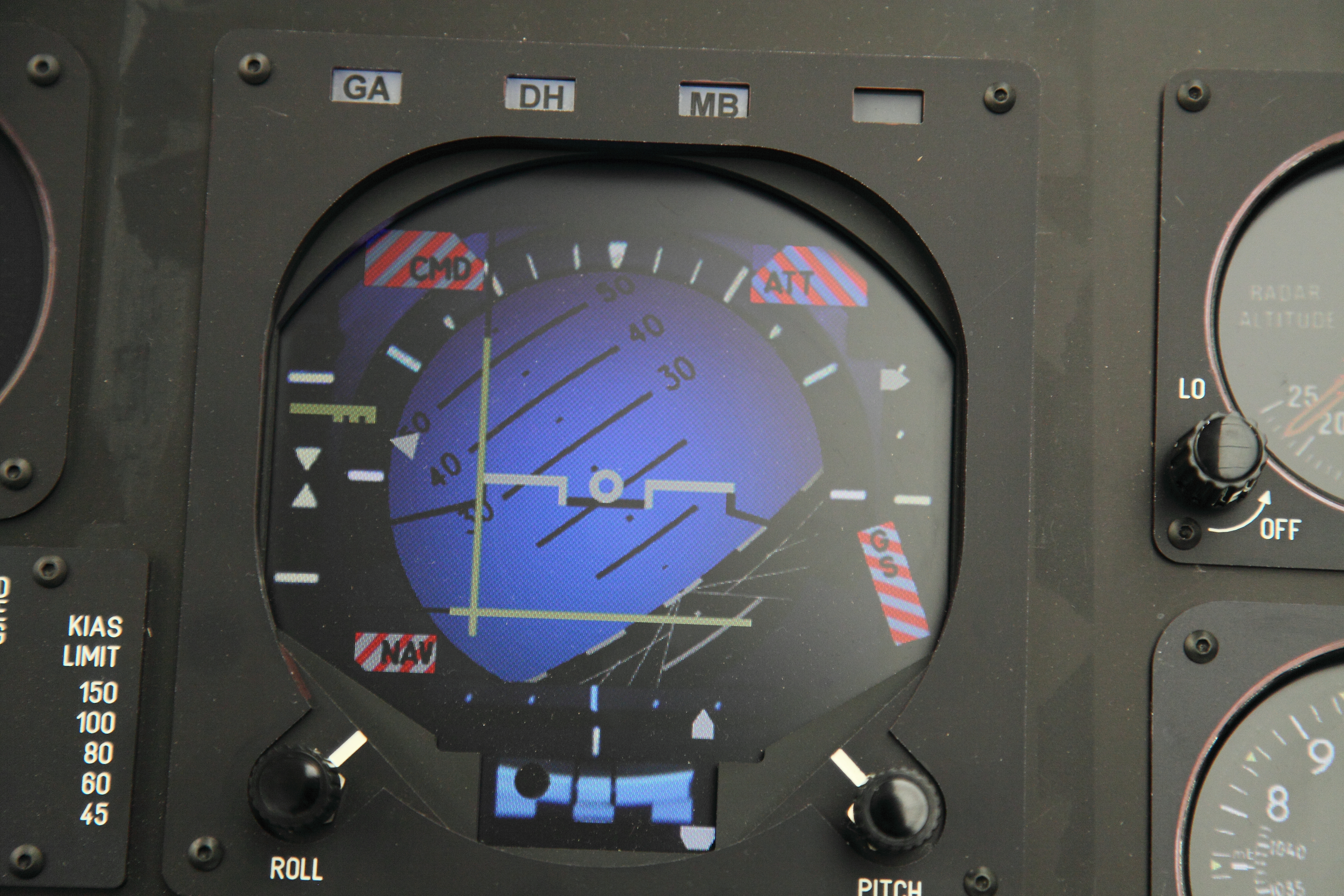 ILA Berlin Air Show 2012; Artificial horizon with warn flags on: NAV - navigatin, GS - glideslope, ATT - atiitude, CMD - command; Attitude indicator with integrated localizer and glideslope indicators; GA- go around, DH - decision height, MB - Magnetic Bearing